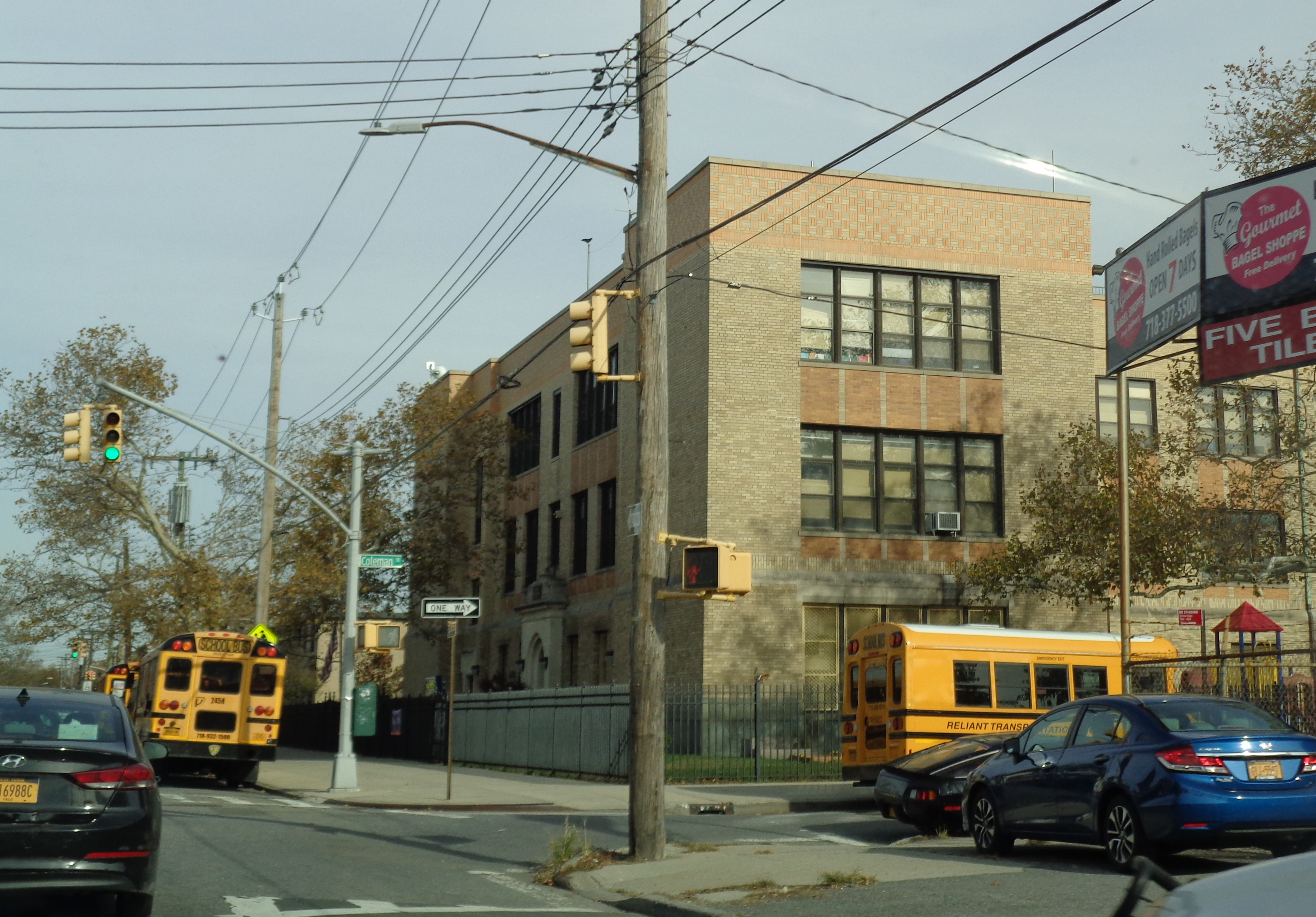 The PS 207 Early Childhood Center, on Flatlands Avenue and Coleman Street in Flatlands, Brooklyn. This is an annex (secondary building) of the main PS 207 school on Filmore Avenue.